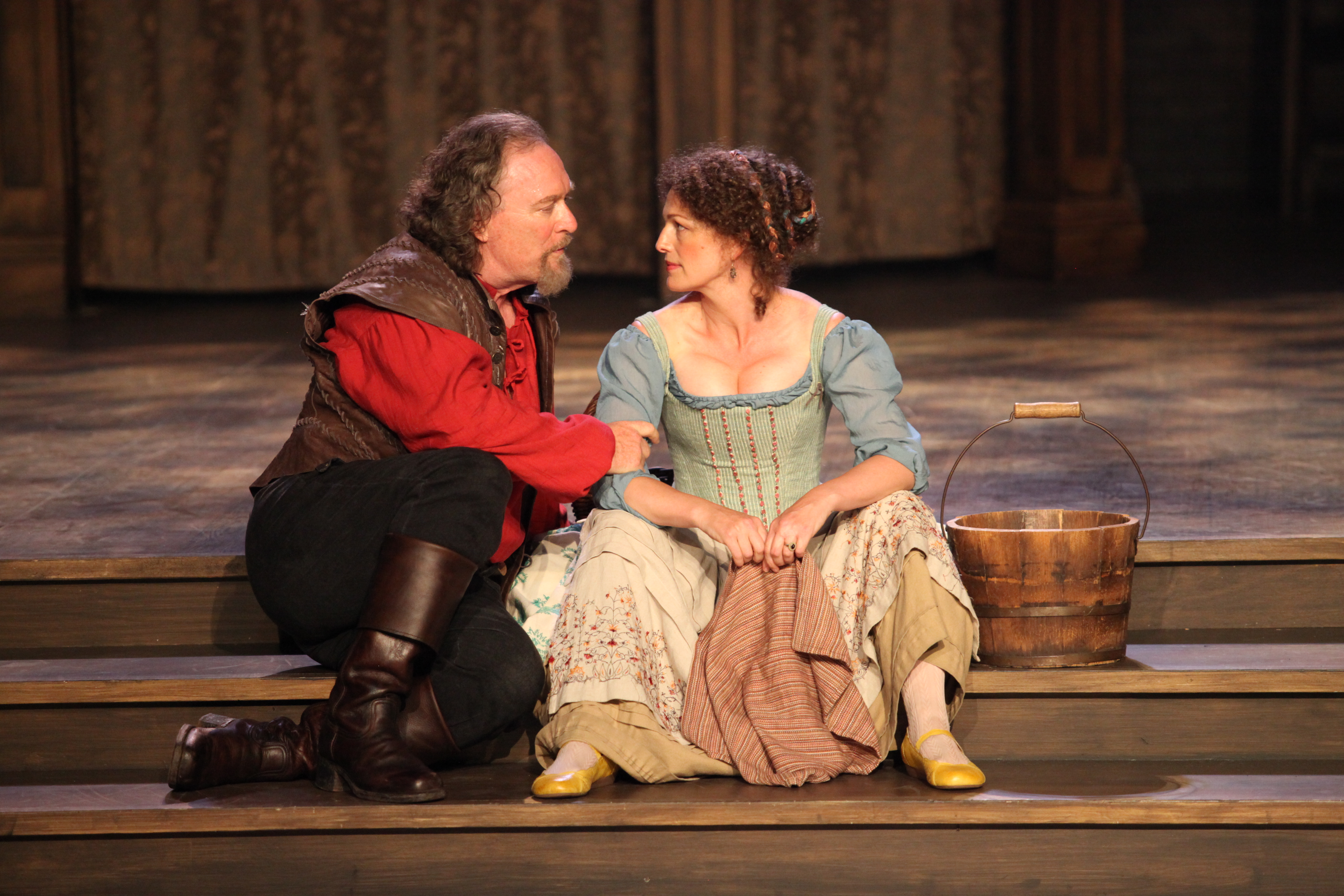 Shakespeare's Rebel by C.C. Humphreys, 2015 Photo by David Blue